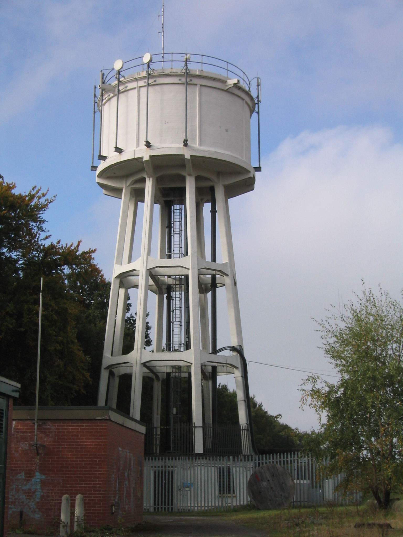 Water Tower above reservoir, Harrogate Road, Moortown, Leeds LS17